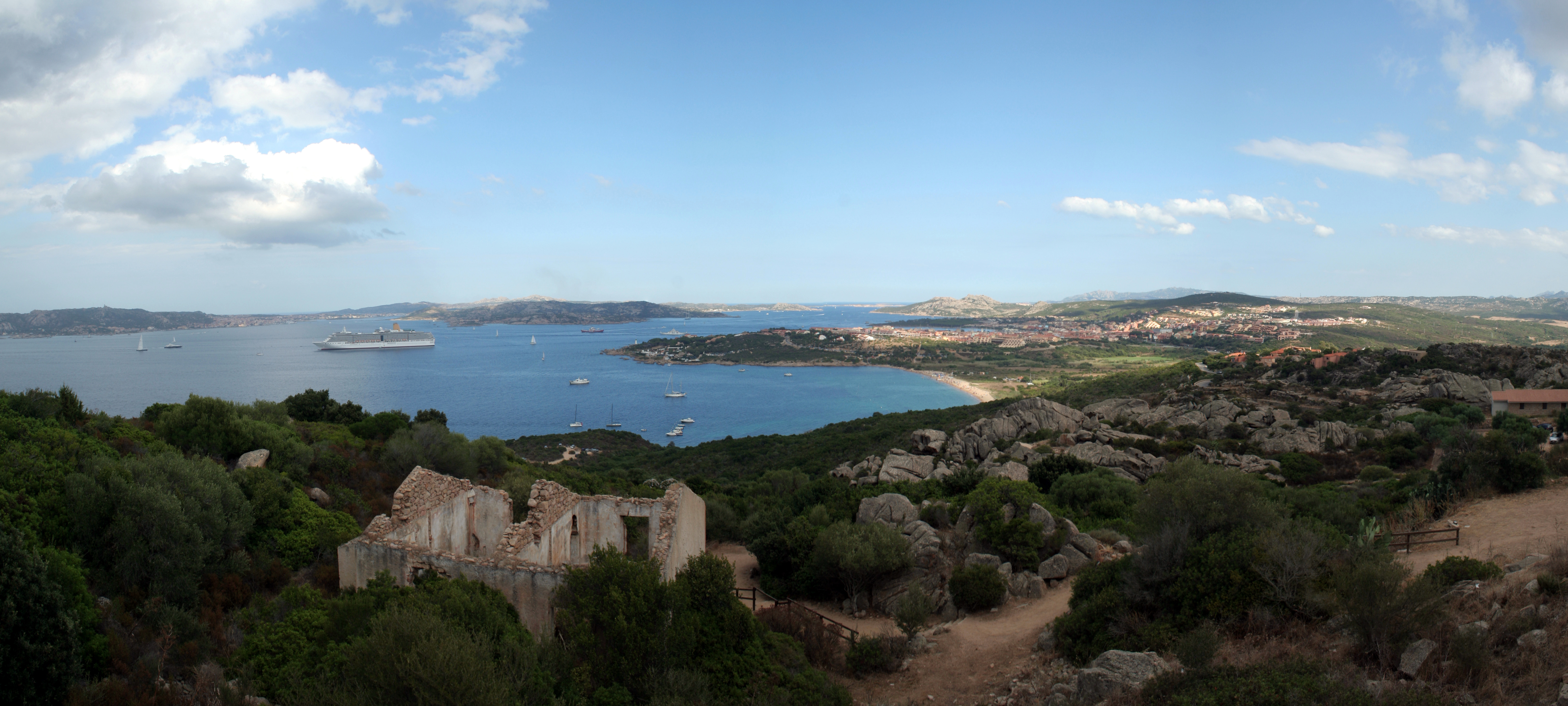 Palau, Sardinia. A cruise ship is on the way from Palau to La Maddalena island